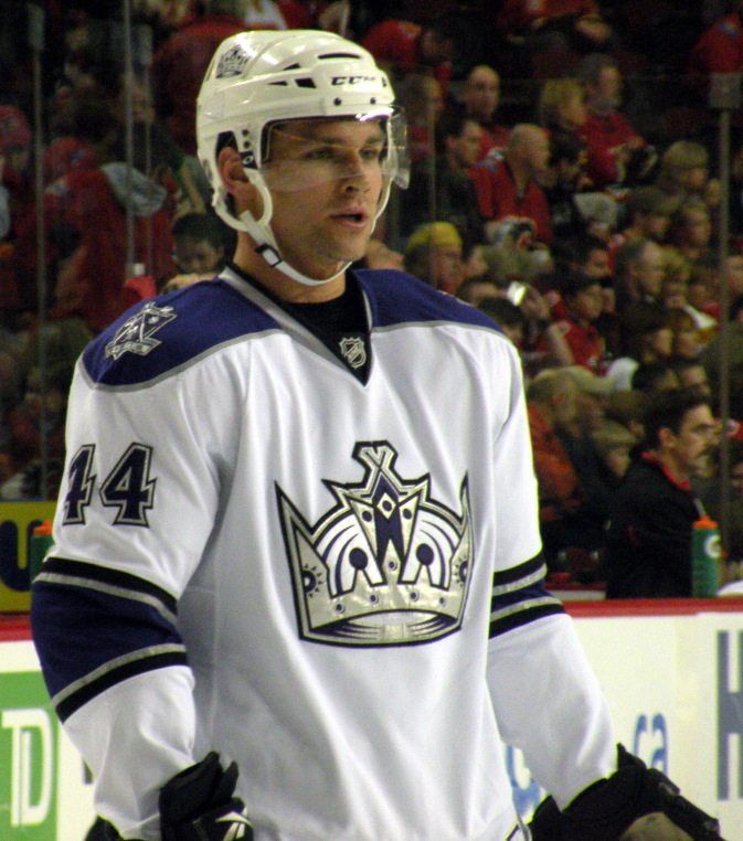 Los Angeles Kings defenceman Davis Drewiske during warmup prior to a National Hockey League game against the Calgary Flames in Calgary.